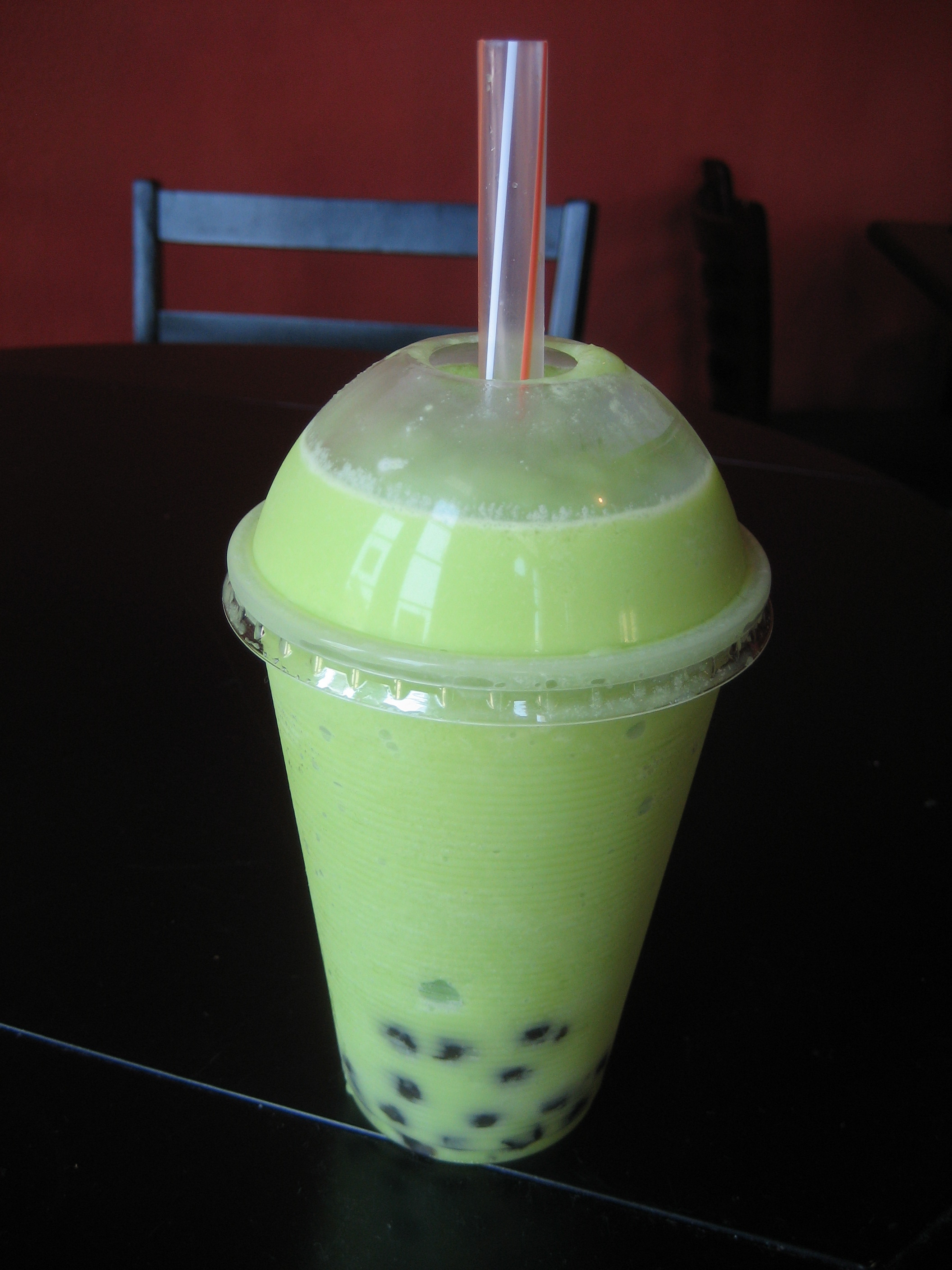 Bubble tea. Honeydew bubble tea from cafe on Maple Street, New Orleans, Louisiana, USA.